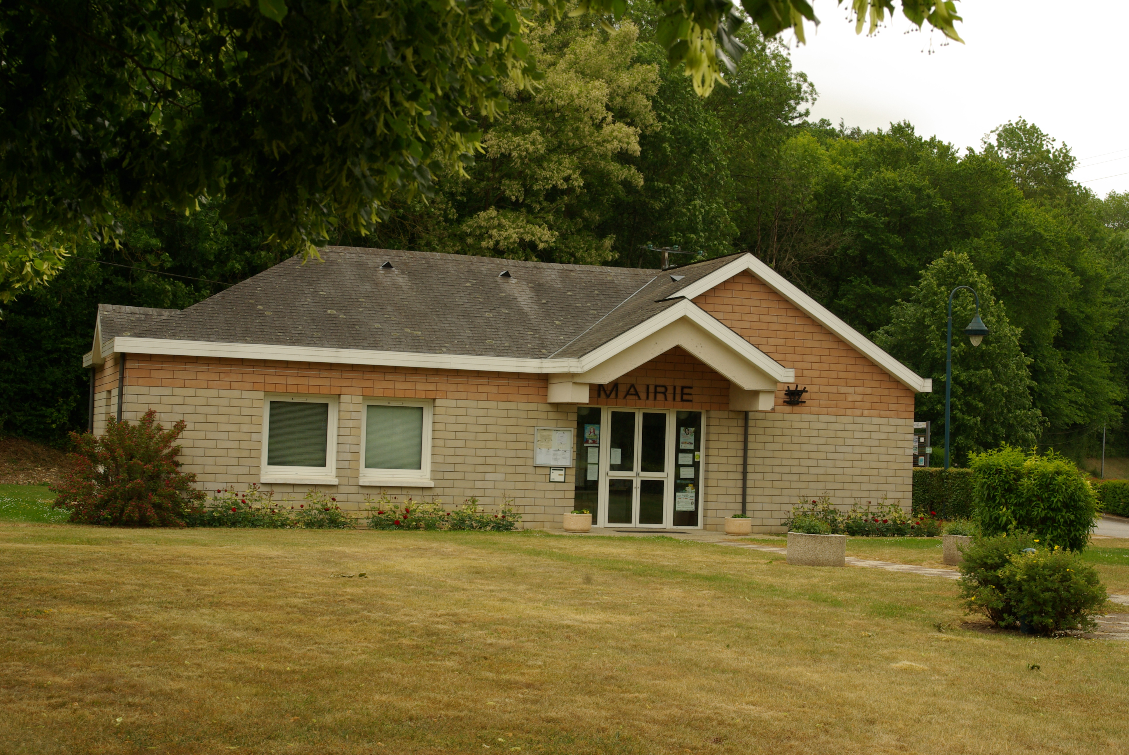 City Hall of Saint-Quentin-des-Isles